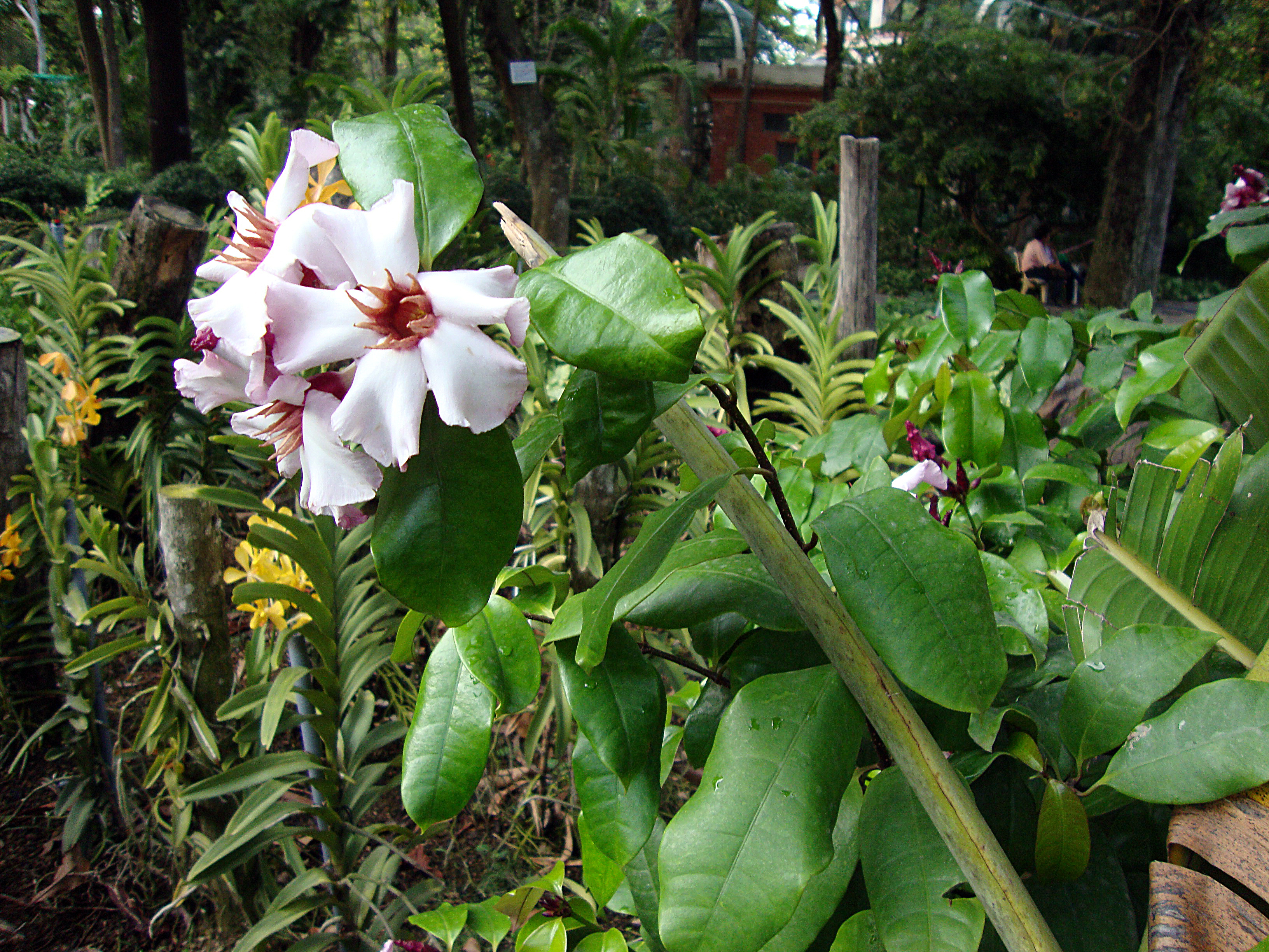 Strophanthus gratus (Wall. & Hook.) Baill, 1888